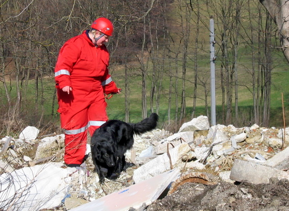 A SAR dog at an urban SAR training event, searching a pile of rubble for a volunteer who has been "buried" inside the pile. Breed pictured Border Collie/German Shepard/Black Labrador mix. Cropped from Image:Search and rescue dog Flickr.jpg